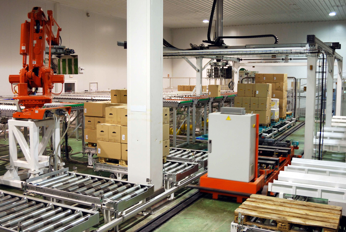 Palletising cell with articulated and gantry robot tecno-840